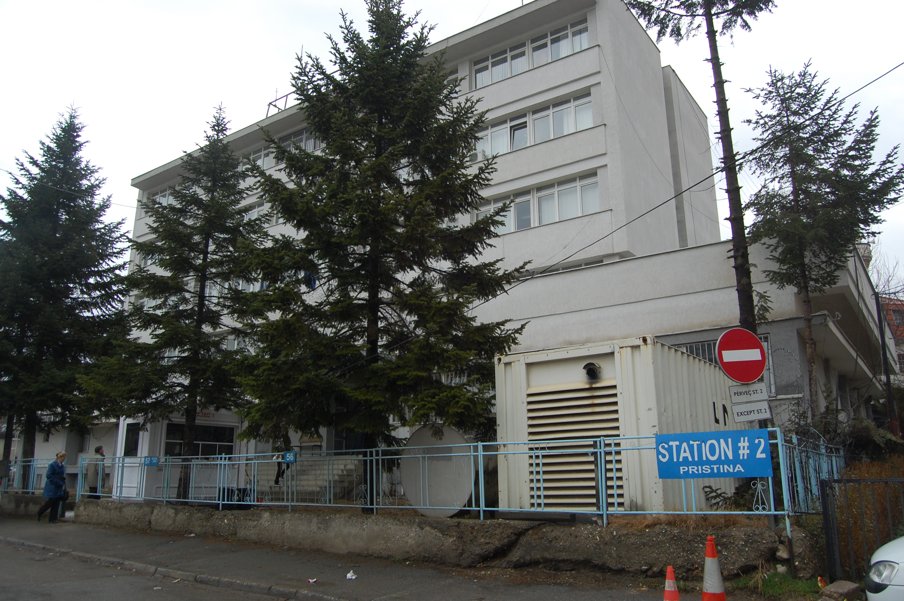 Police Station 2 in Pristina, Kosovo